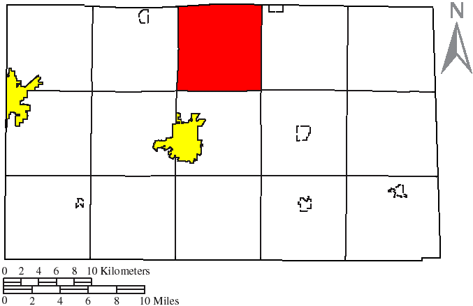 Made by the US Census and modified by myself